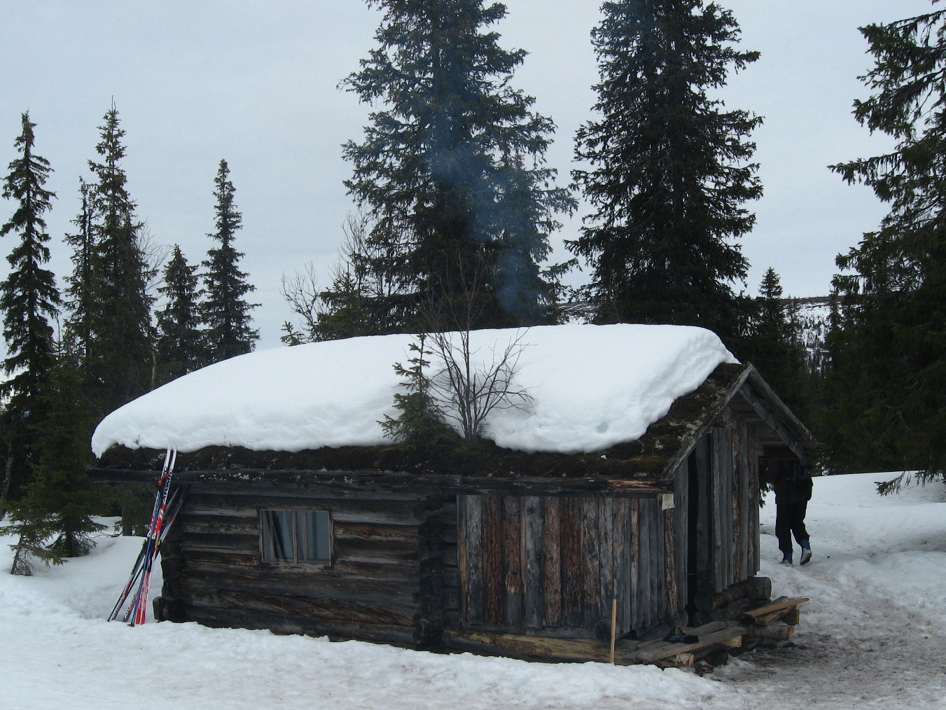 Mustavaara wildernes hut, Muonio, Finland.